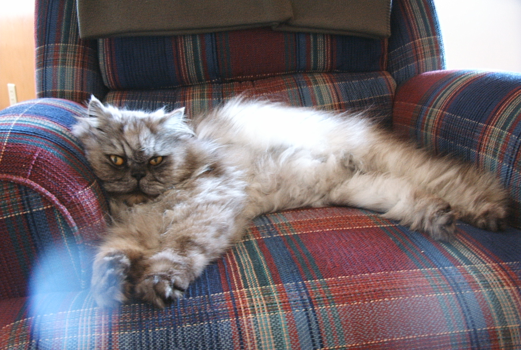 My Blue Tabby Persian Male.